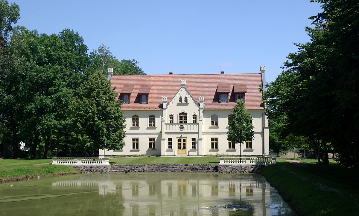 Manor house in Gahry, Brandenburg, Germany